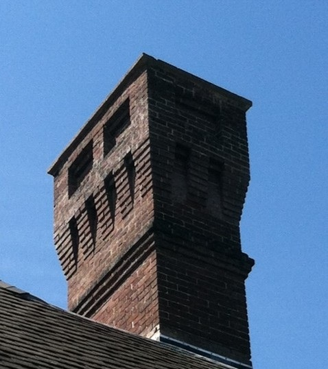 This photograph shows the Laurel Hill Presbyterian Church chimney as of April, 2013.